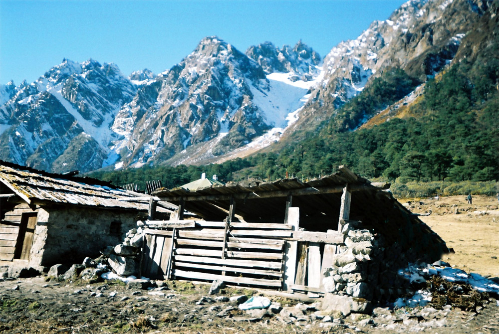 Yumgthang Valley in north Sikkim Picture clicked by me, Nichalp on December 11, 2004 11:00 am; Temperature: −1 °C (30 °F) Altitude: 11,000 feet (3,400 metres)